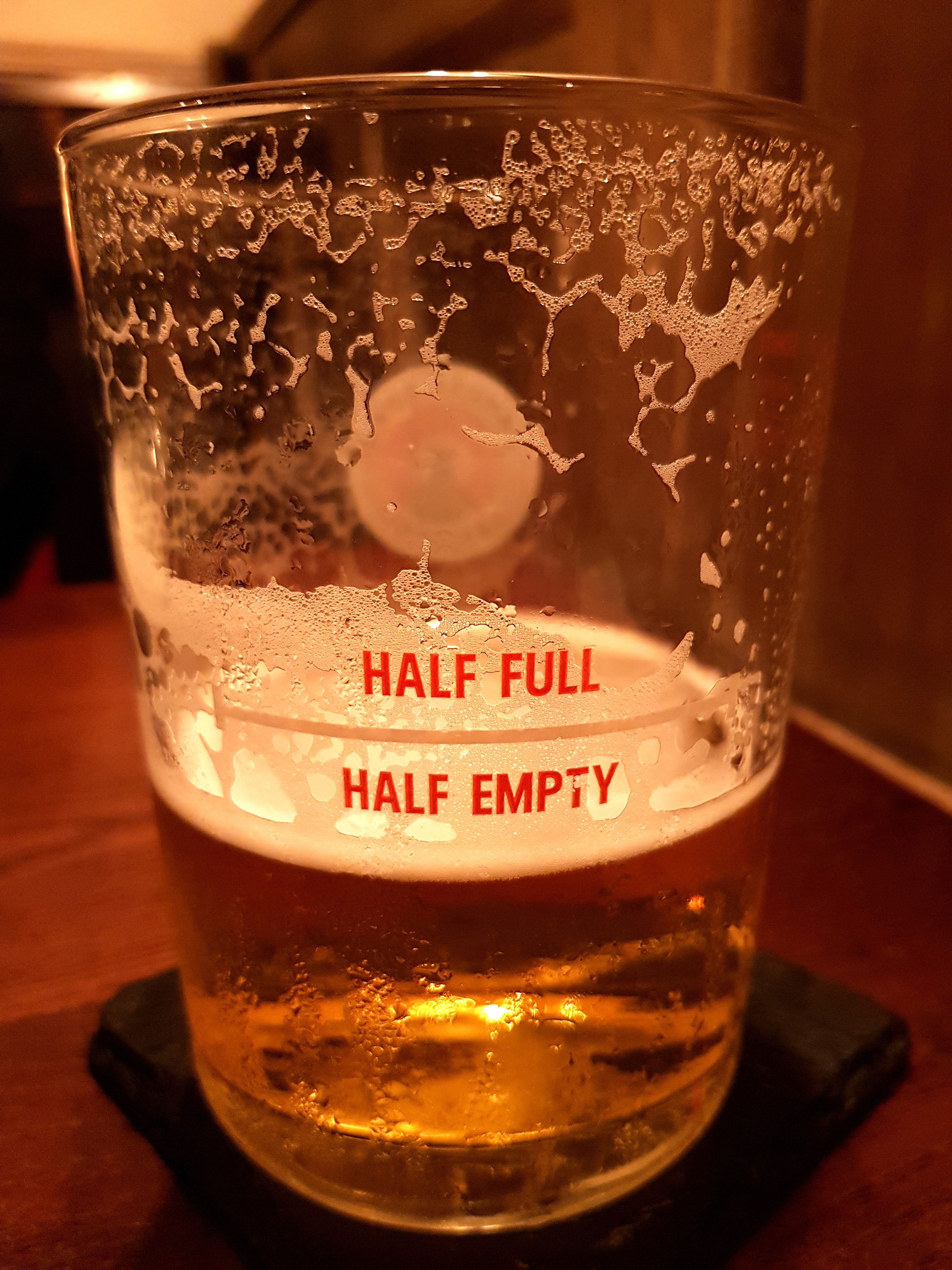 A beer glass made by Camden Town Brewery (London). The physical presence of beer in the glass's lower part, exactly where the inscription is: 'HALF EMPTY', sets a collision between two frames of reference. This incongruity results in a humorous effect at the moment of its realization.